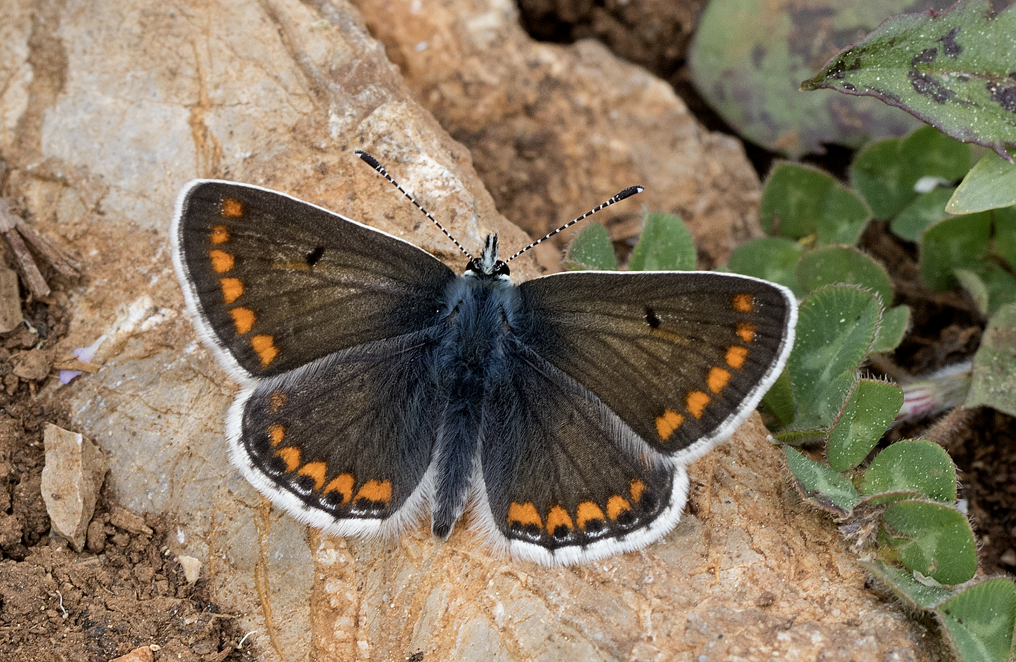 Mountain argus (Aricia artaxerxes). Karakuyu - Saimbeyli, Adana - Turkey.